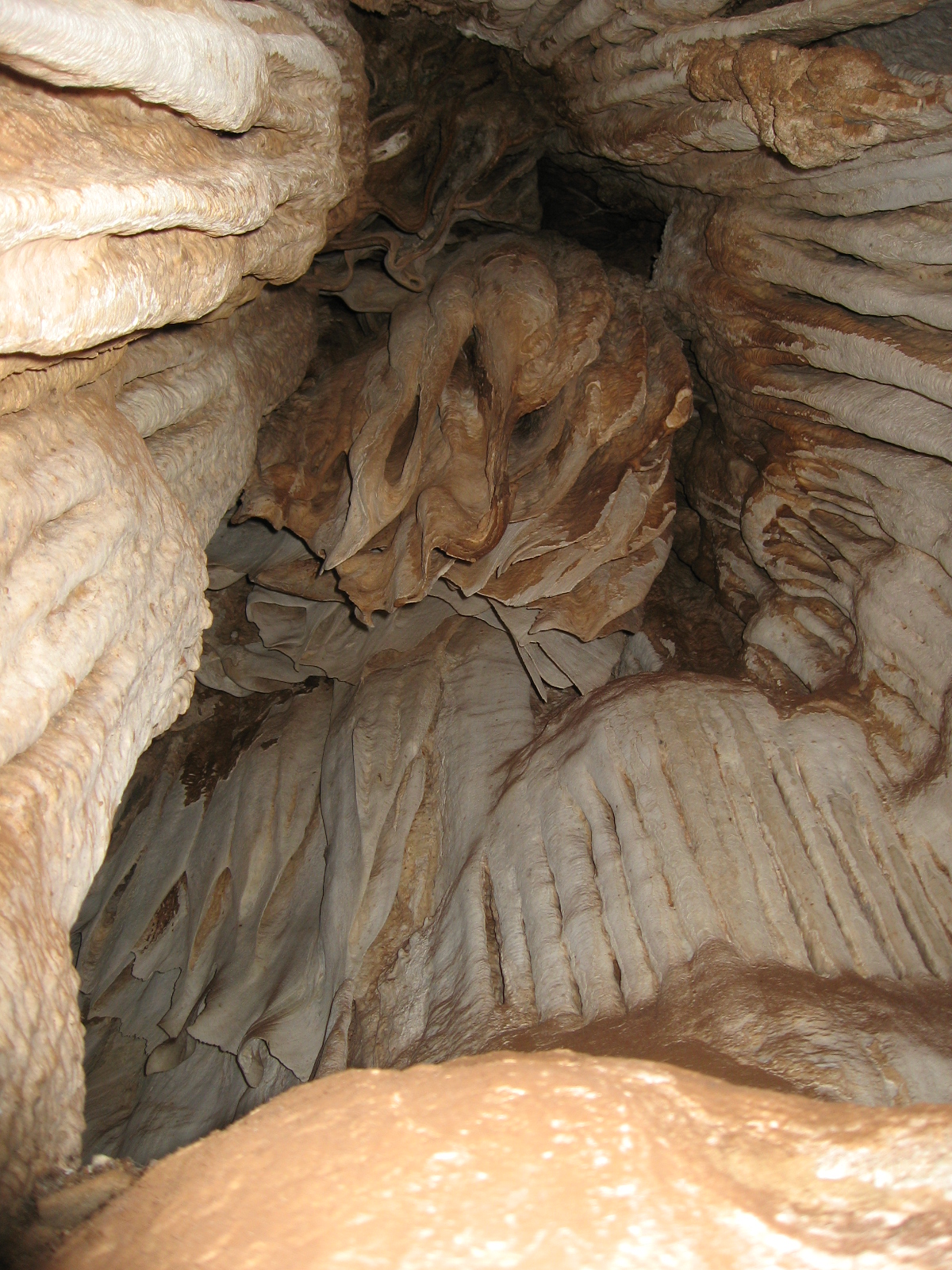 Inside the Echo caves